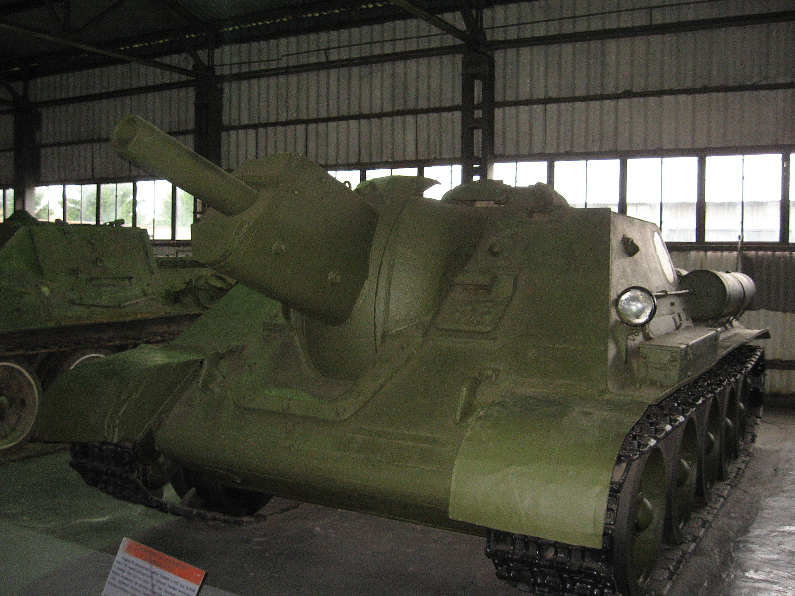 Soviet self-propelled gun SU-122, displayed in Kubinka Tank Museum. Photo taken on September 10, 2006. Source: Photo by BVV.